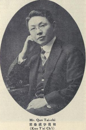 Guo Taiqi (Kuo T'ai-ch'i), Fuchu (1888 - 1952)